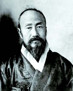 Yun Chi-ho in 1930